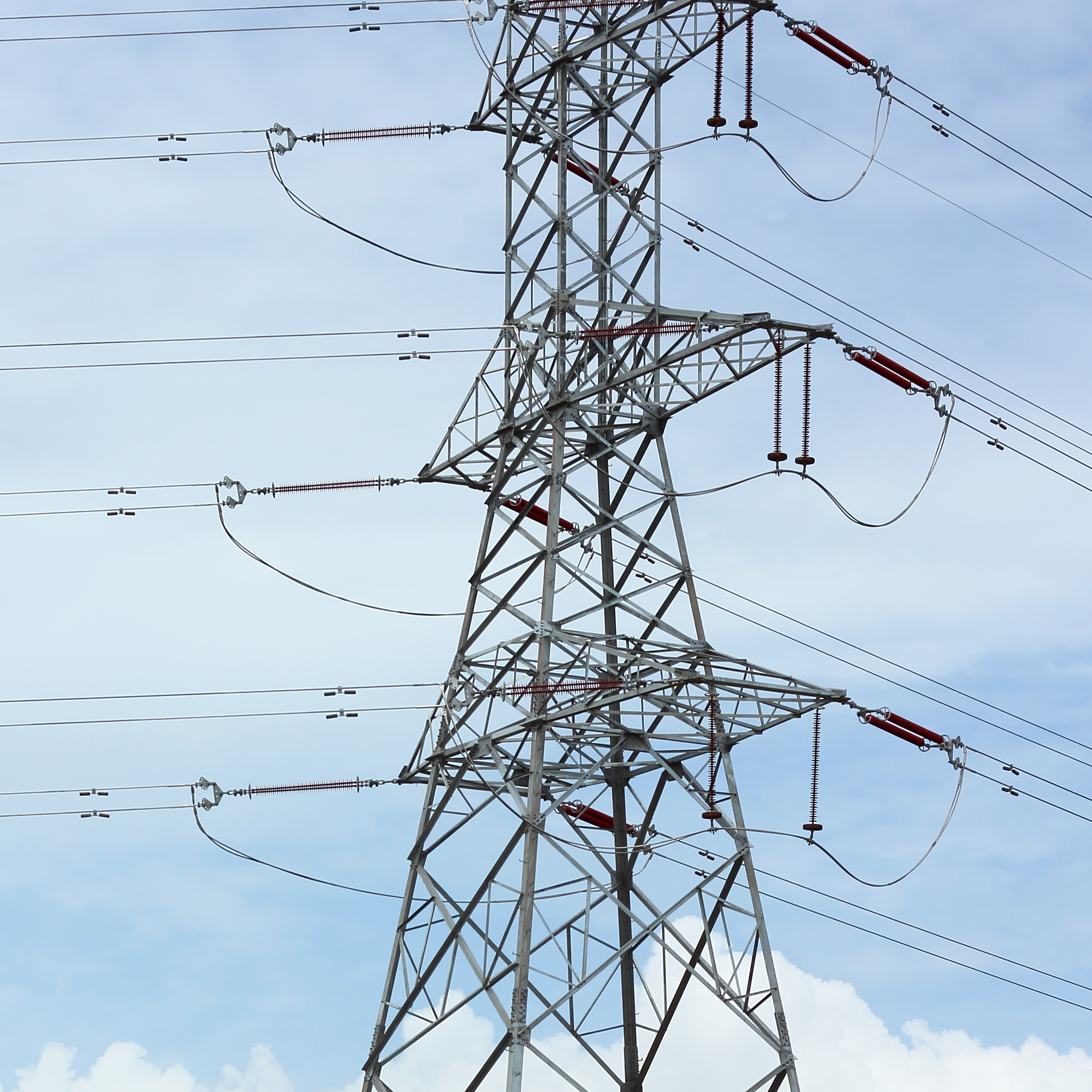 Electricity pylons in Cambodia.